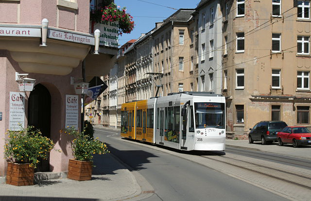 NGT8G tramway in Leibnizstraße, corner of Cubaer Straße, Gera, Germany